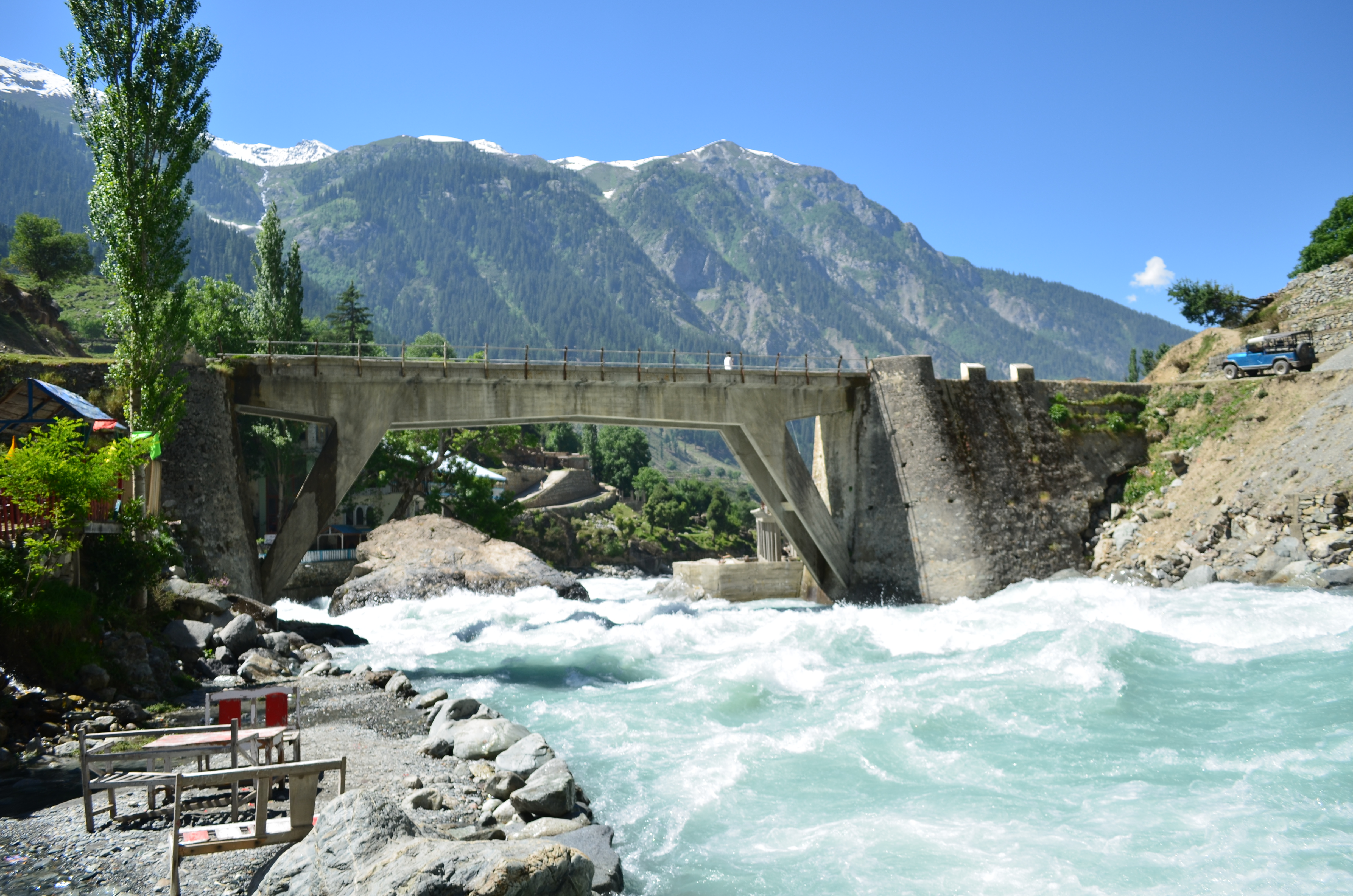 View from a hotel in Usho Valley. Swat river flowing in full flow